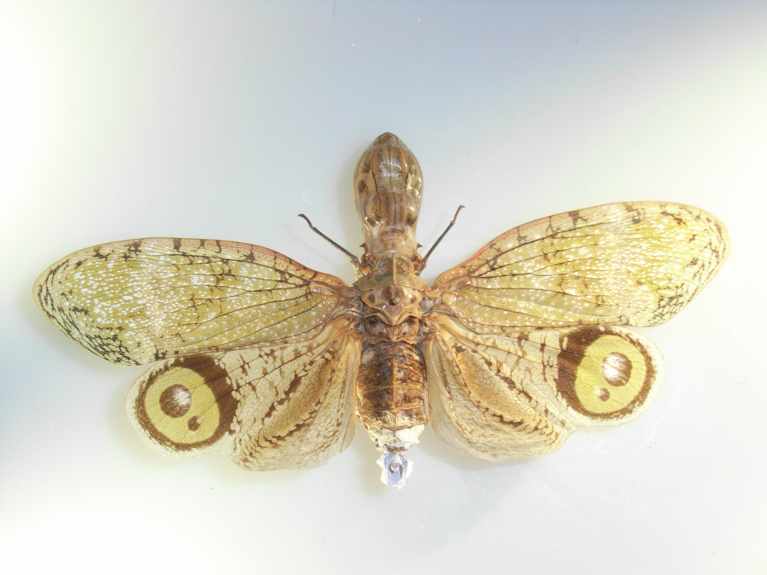 Fulgora laternaria Ex coll. Felix Stumpe